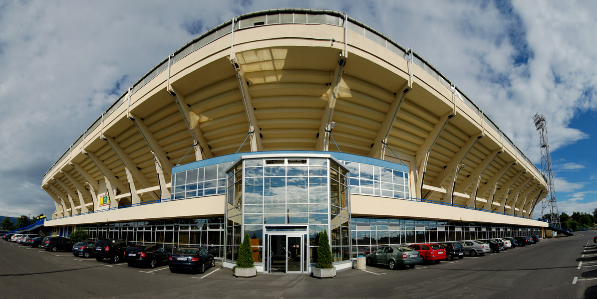 The main entrance of the stadion Na Stínadlech in Teplice